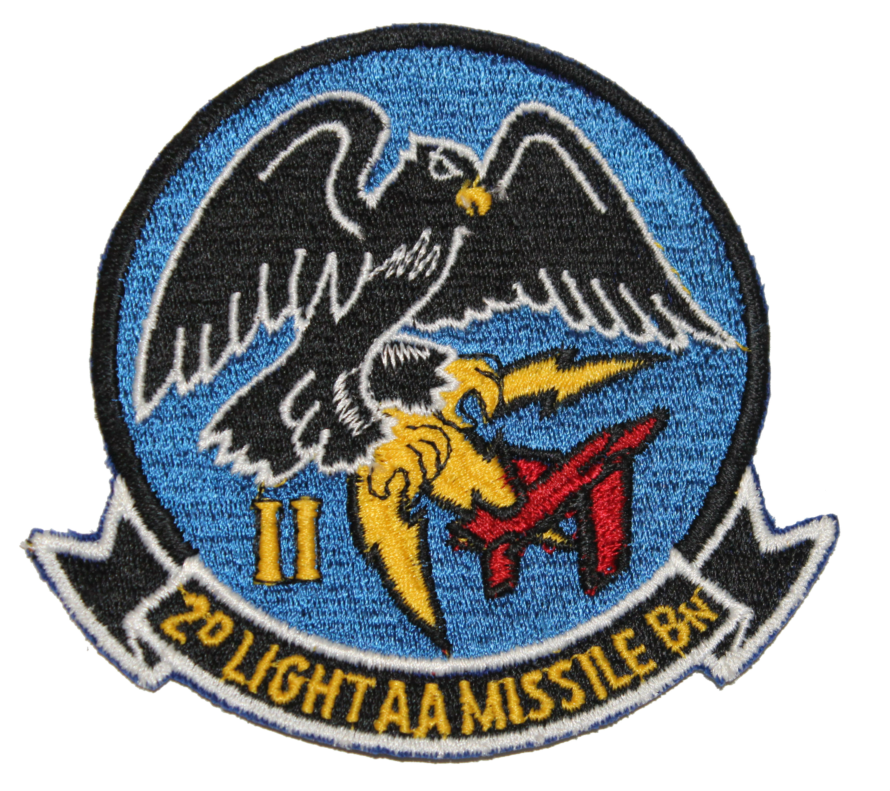 Photograph taken of a 1960s 2nd LAAM Battalion patch.